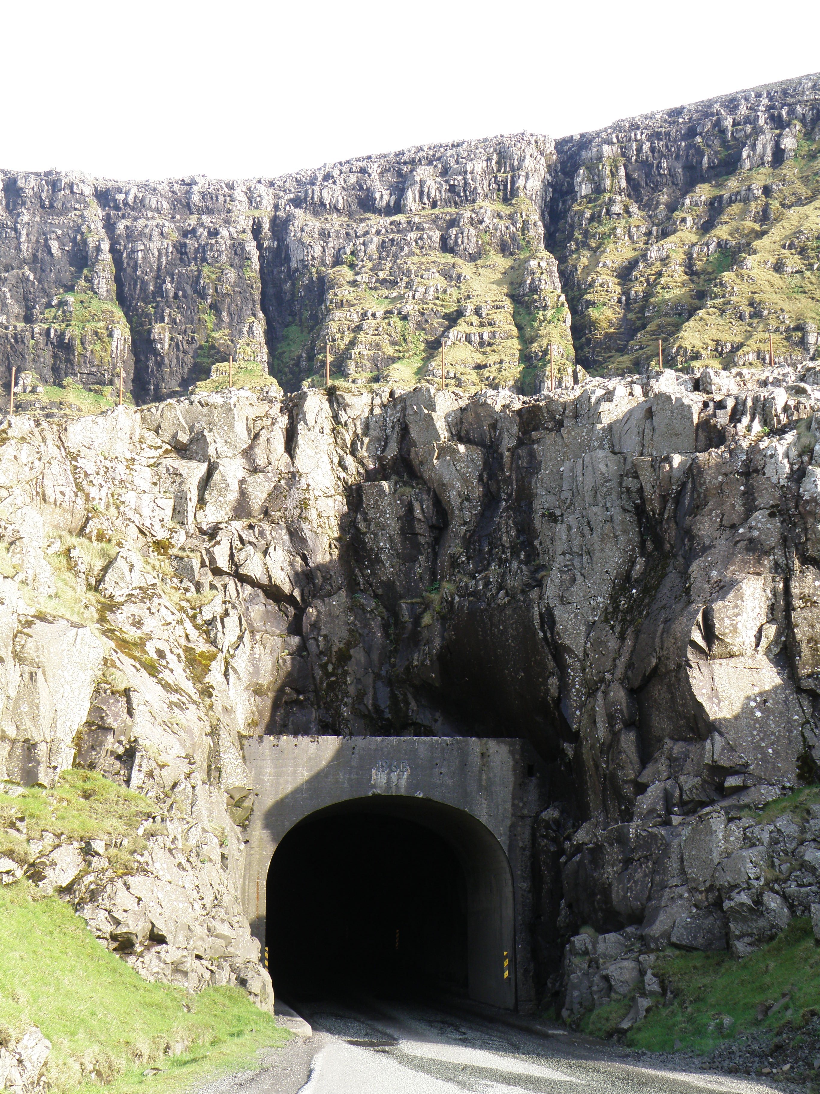 Hvalbiartunnilin is the road tunnel between Trongisvágur and Hvalba. All traffic to and from Hvalba needs to go through this tunnel which was built in 1963 and has only one lane and passing places. A new tunnel with two lanes will be made, the work starts in 2016.